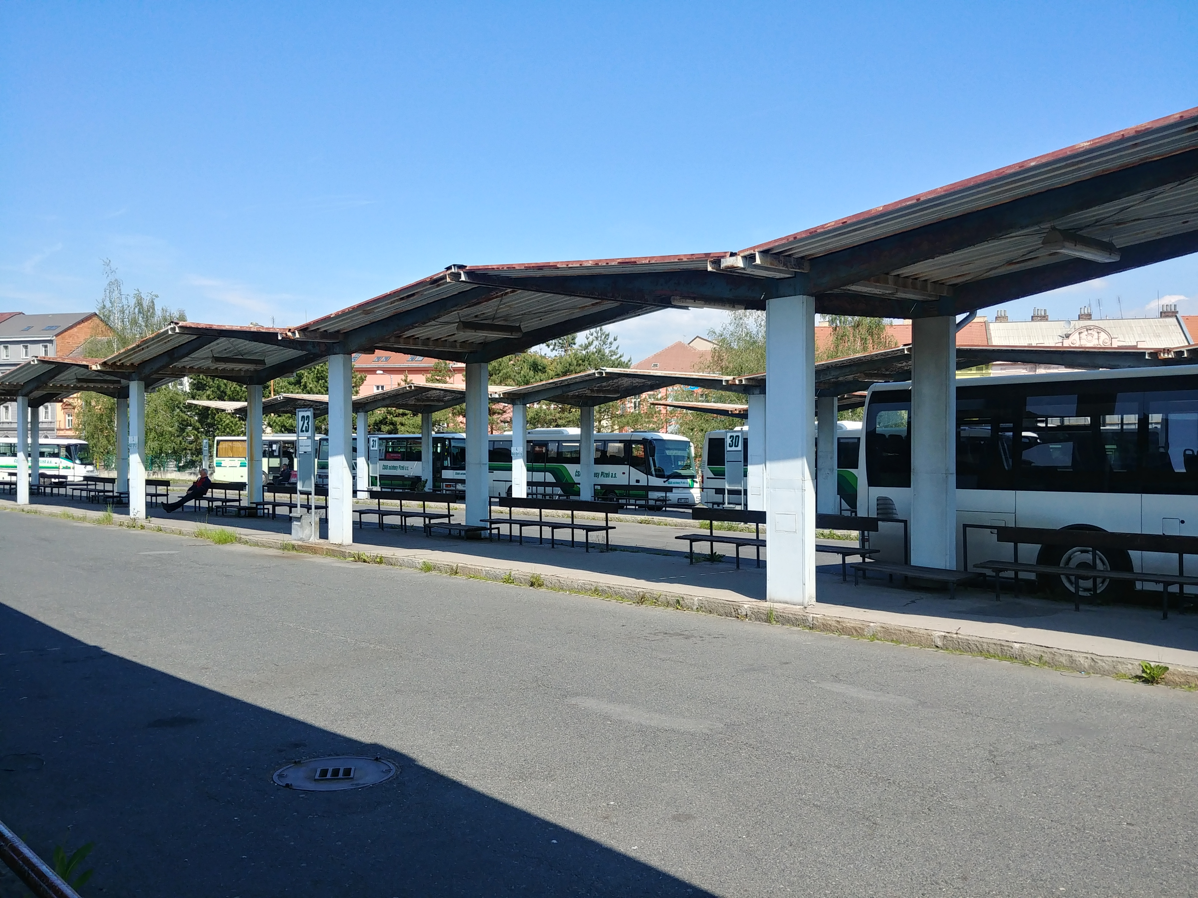 Buses and the roof shelter structure at the bus station Plzen, CAN on Huzova Street.